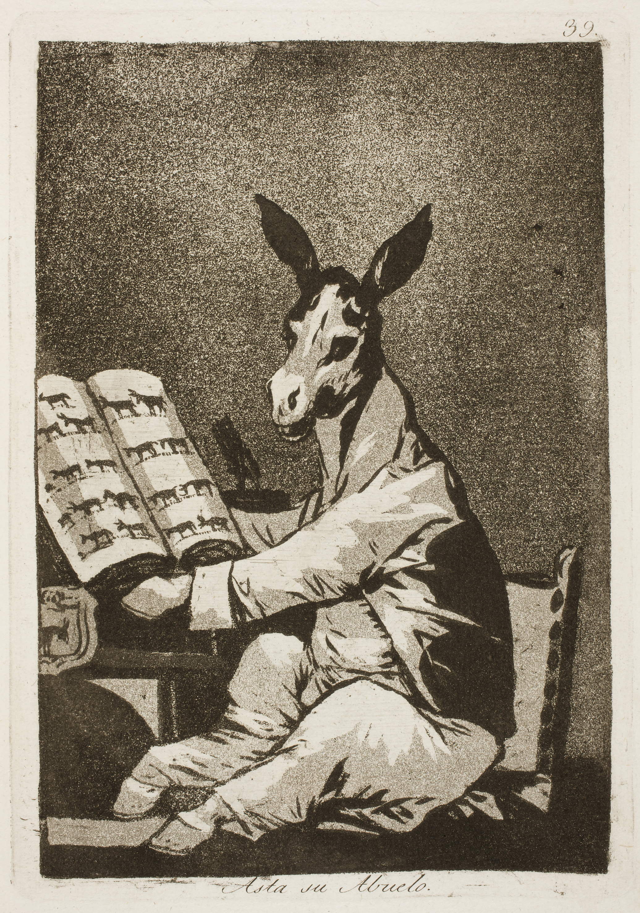 This print is work No. 39 of the "Caprichos" series (1st edition, Madrid, 1799).